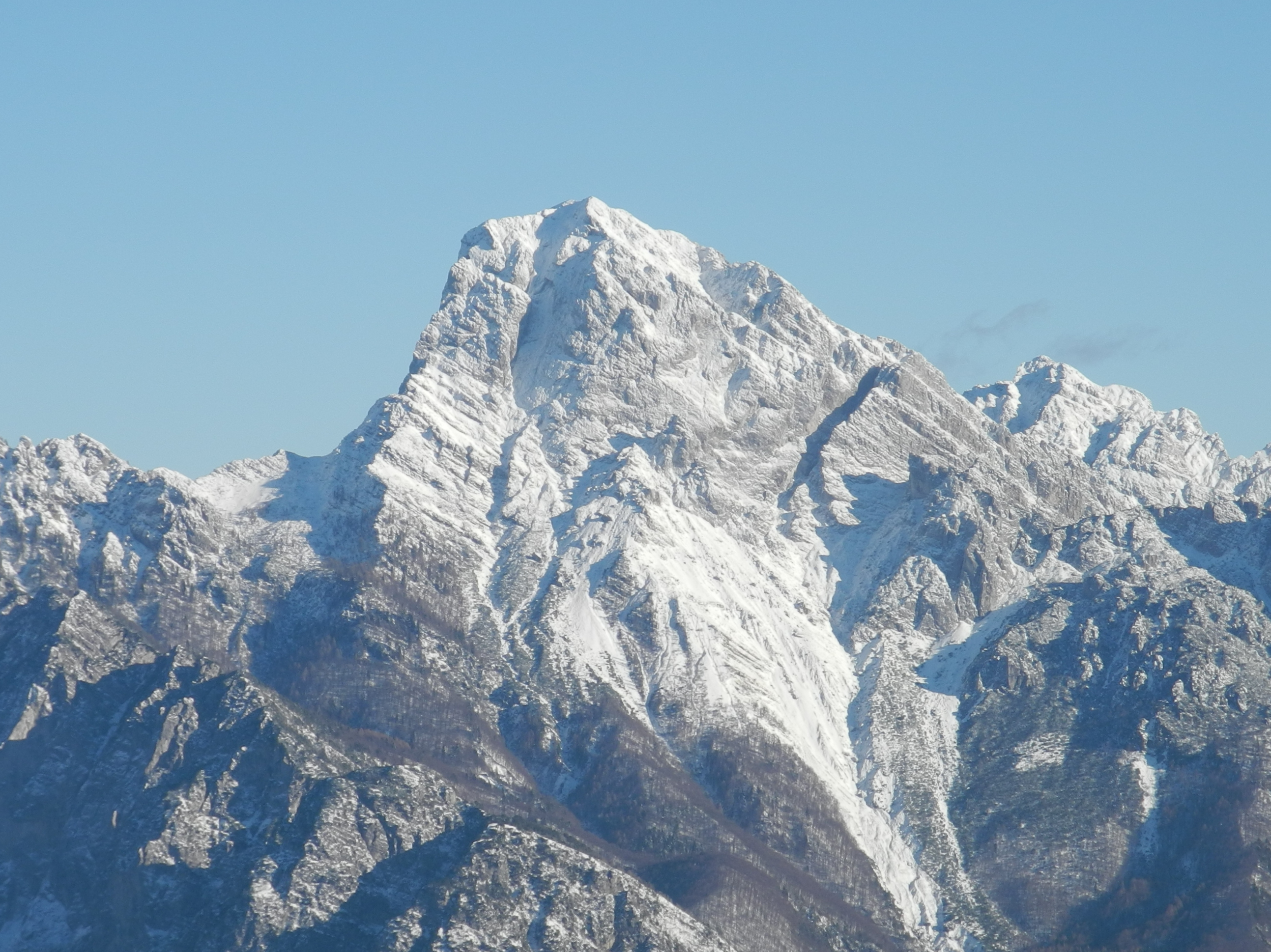 Mount Sernio (UD - Italy) as seen from Mt. Dauda